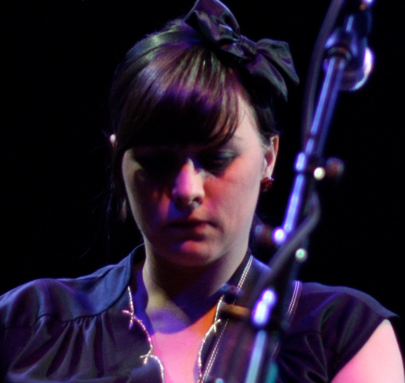 Camera Obscura performing at the Fillmore (San Francisco, California)